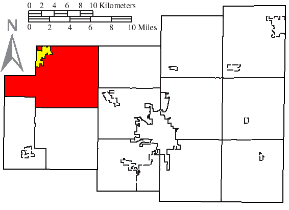 Made by the US Census and modified by myself to highlight the township